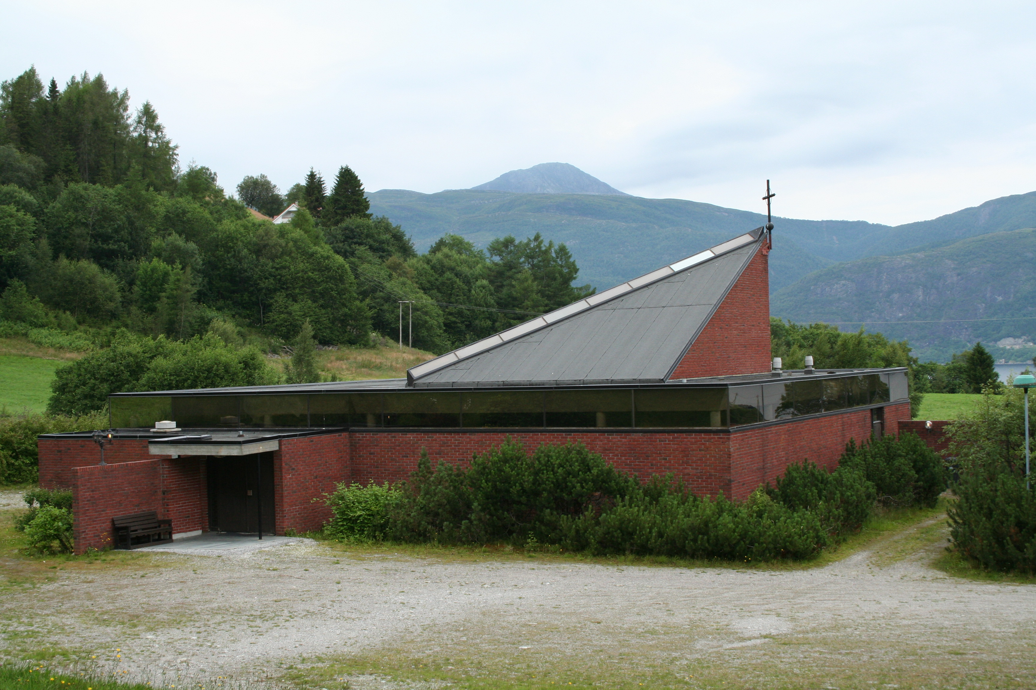 Kvammen chapel in Askvoll, Sogn og Fjordane, Norway, from 1977. Architect Alf Apelseth.